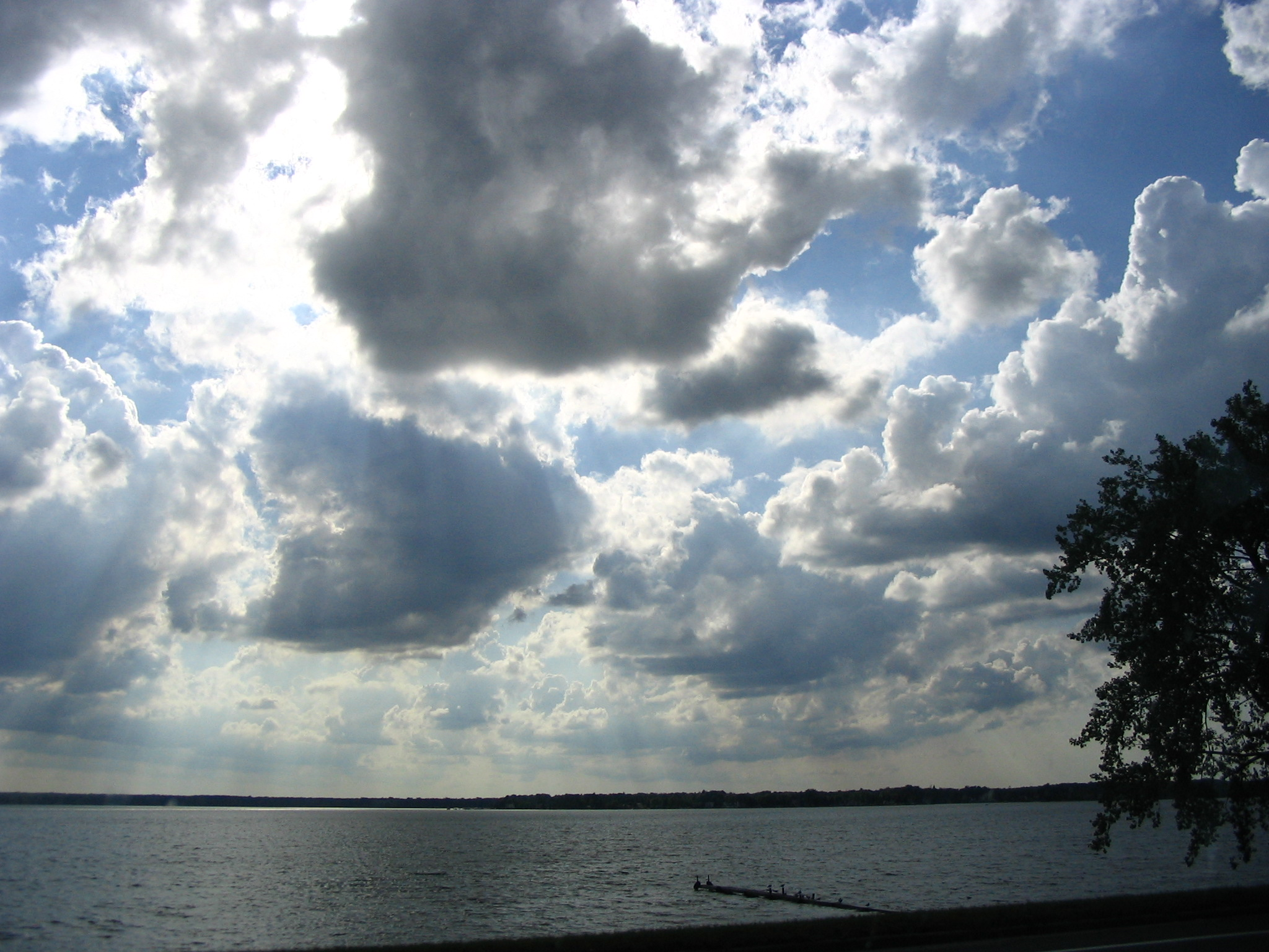 Another view of Torch Lake